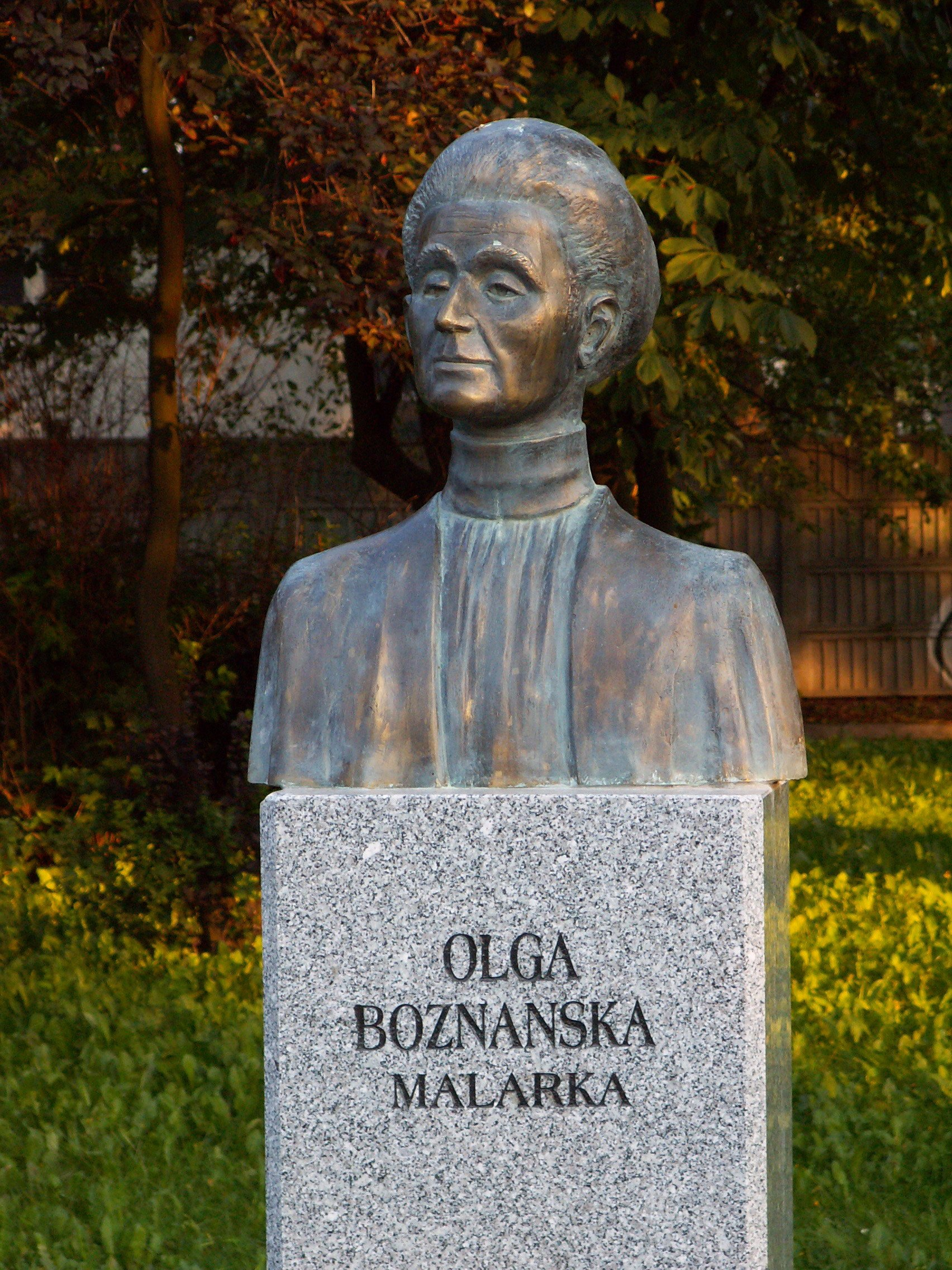 Bust of Olga Boznańska in Celebrity Alley in Kielce (Poland)